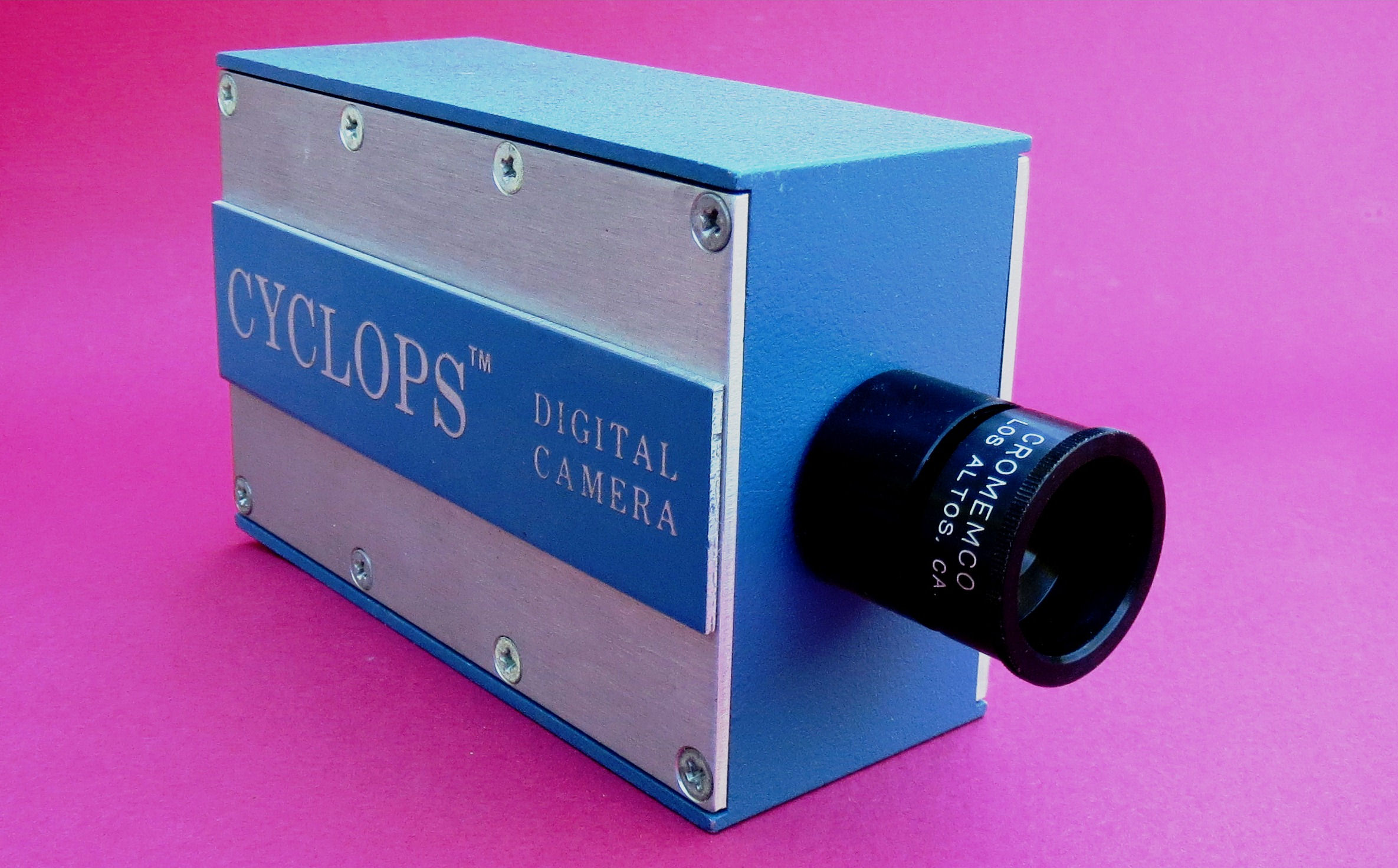 Cromemco Cyclops: First all-digital camera with solid-state area image sensor. Original design appeared in the February 1975 issue of Popular Electronics